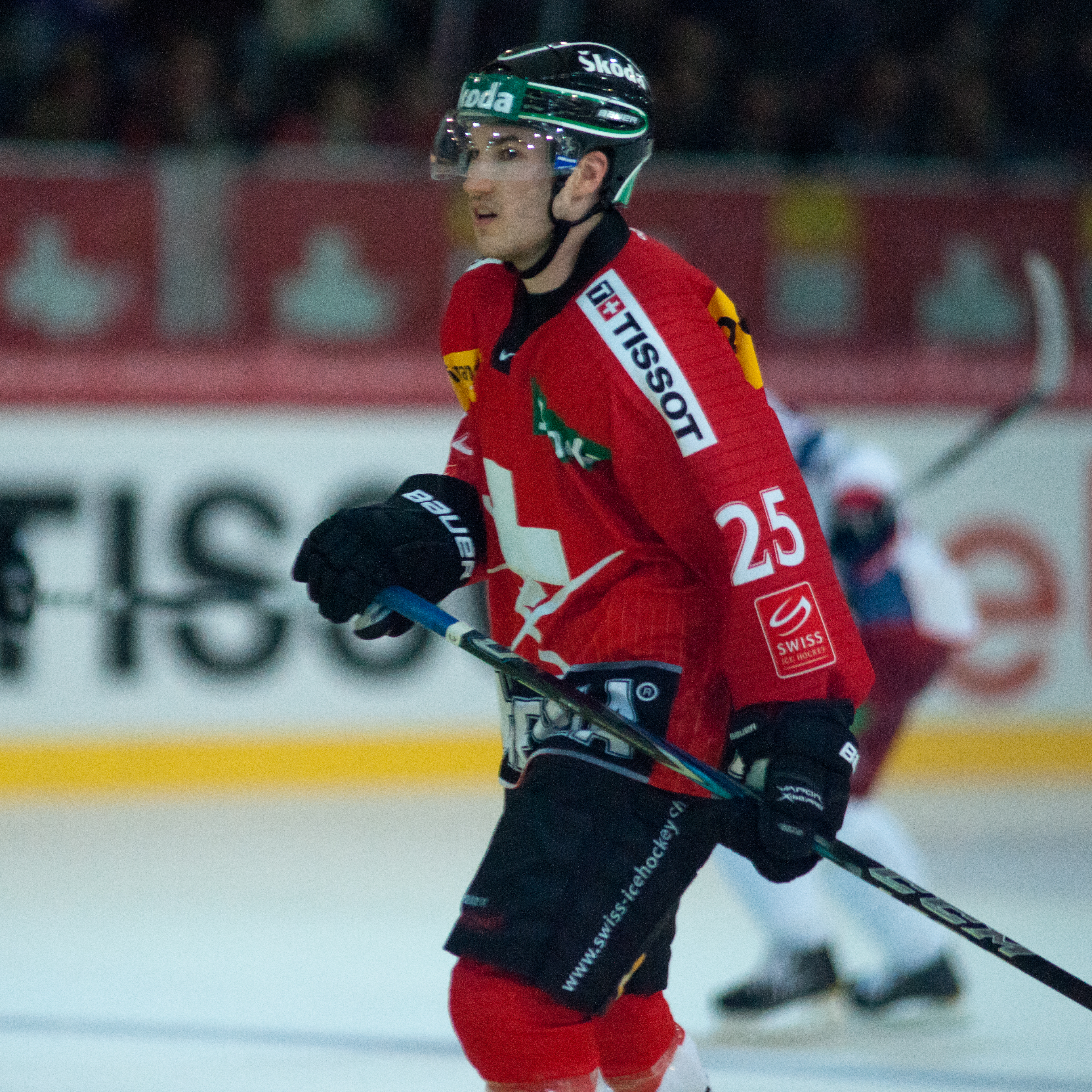 The making of this document was supported by Wikimedia CH. (Submit your project!) For all the files concerned, please see the category Supported by Wikimedia CH. Switzerland vs. Russia, 8th April 2011